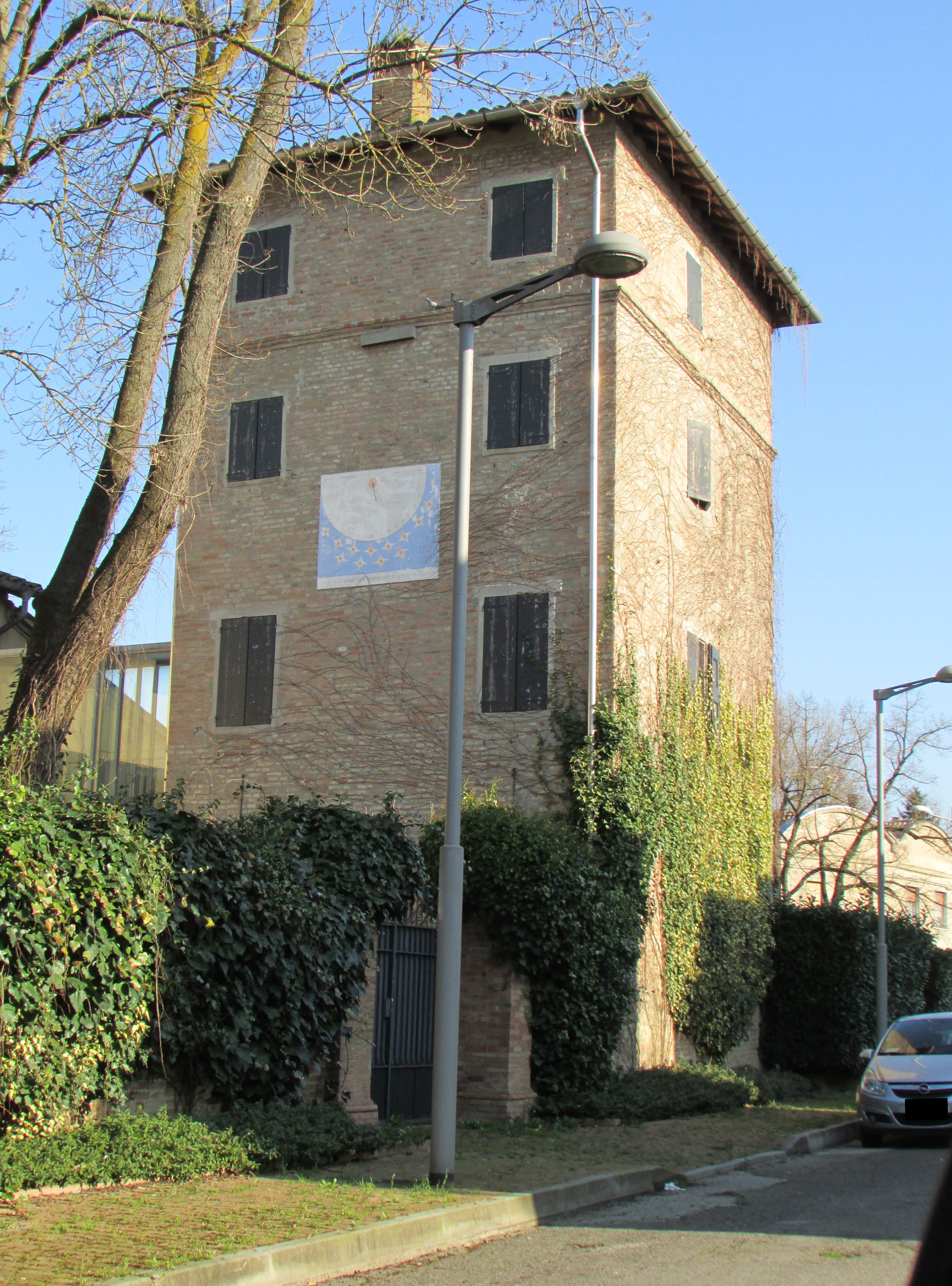 the Coenzo tower